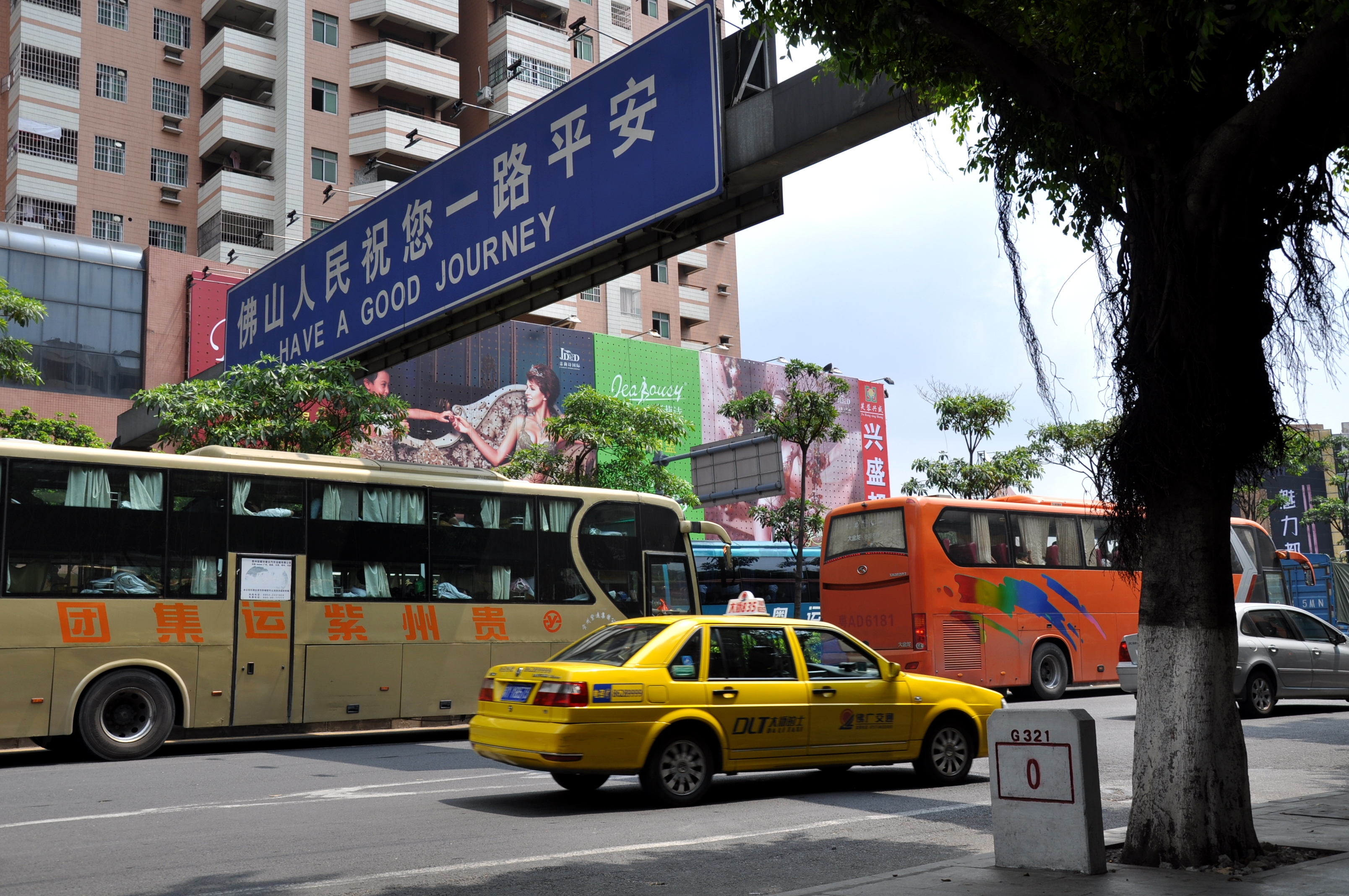 G321 K0 LOCATION